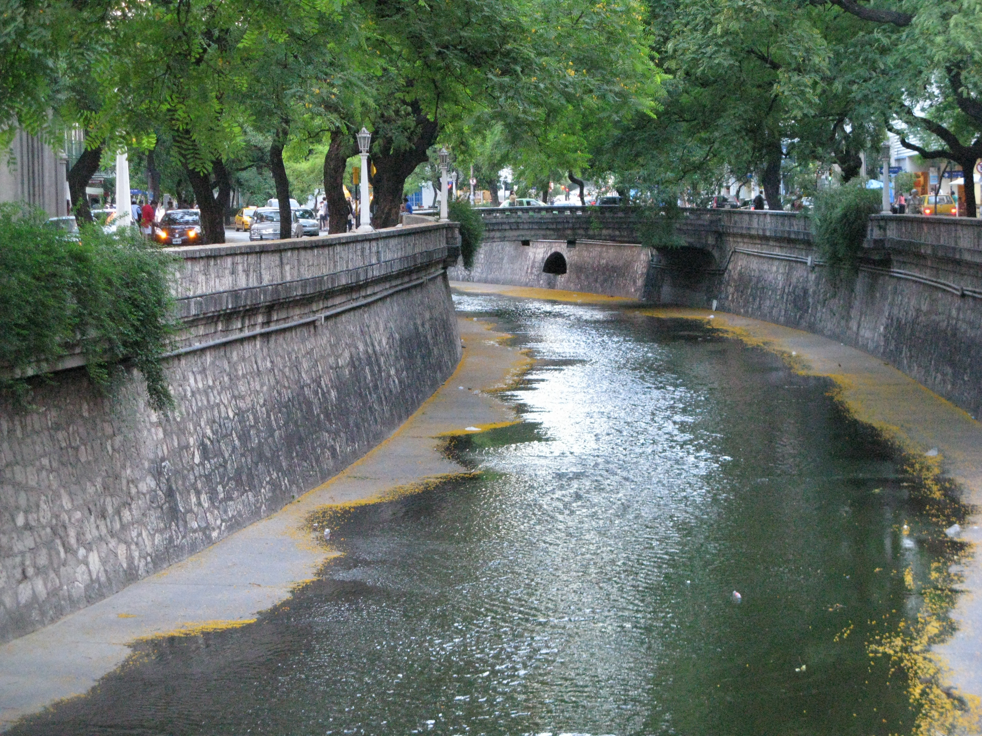 La Cañada (The Glen) in the spring. Cordoba, Argentina.